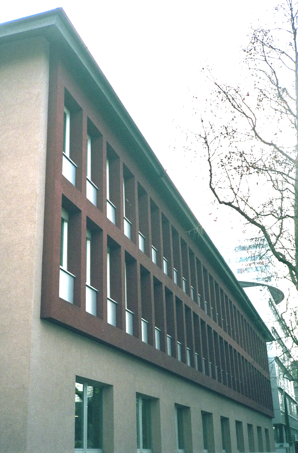 Heilbronn